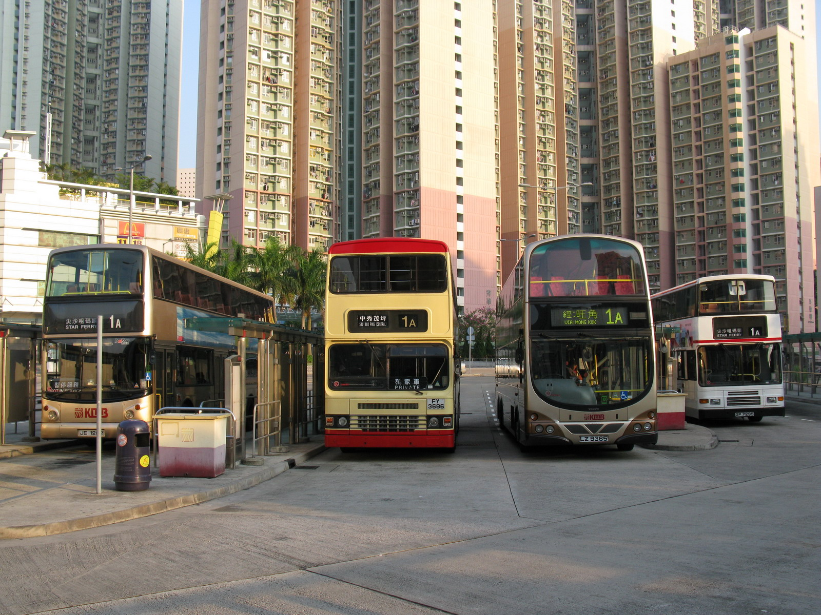 Four different models of KMB Route 1A Buses parked at Sau Mau Ping (Central) Bus Terminal